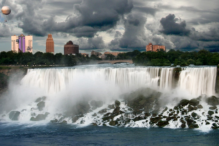 Niagara falls, 2007, before a rain storm